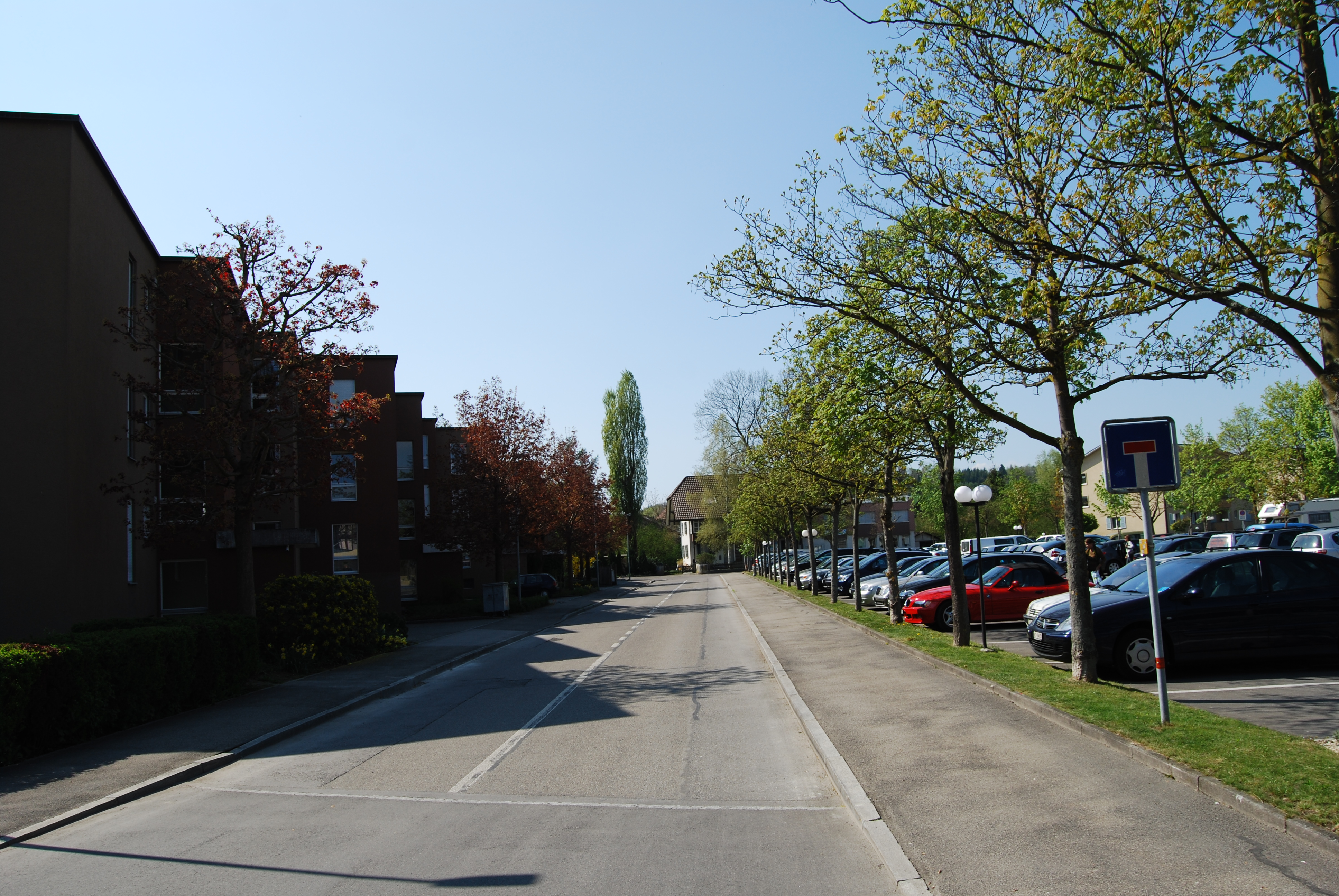 Urtenen-Schönbühl, canton of Bern, SwitzerlandEsperanto: Urtenen-Schönbühl, Kantono Berno, Svislando